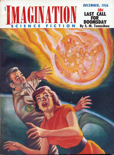 Cover of Imagination, December 1956